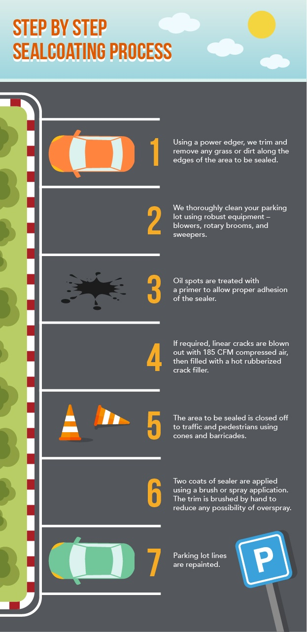 The Sealcoating Process